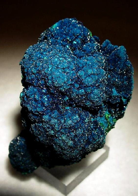 Cornetite Locality: L'Etoile du Congo Mine (Star of the Congo Mine; Kalukuluku Mine), Lubumbashi (Elizabethville), Southern area, Katanga Copper Crescent, Katanga (Shaba), Democratic Republic of Congo (Zaïre) (Locality at ) Size: miniature, 5.7 x 3.9 x 3.9 cm Cornetite Very rich dense growth of very fine acicular crystals in a fine rounded botryoidal look. The deep blue color is every bit as good as any youve seen before from this, the type locality; and the fine microcrystals bring a nice sparkling luster to the piece. 5.7 x 3.9 x 3.9 cm